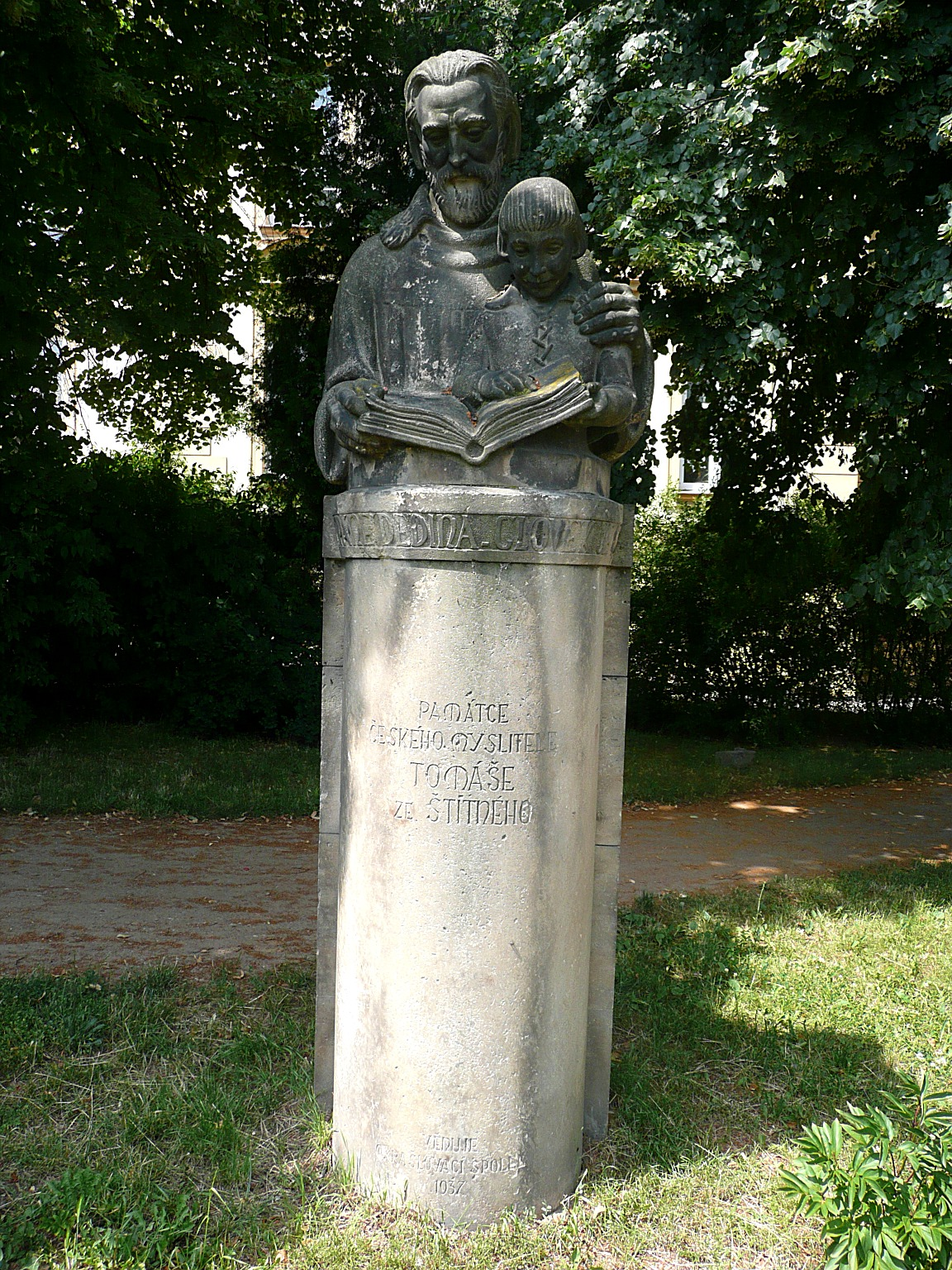 Tomáš Štítný statue in Olomouc, Czech Republic